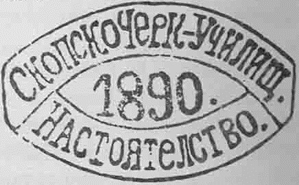 Skopje Bulgarian School Seal